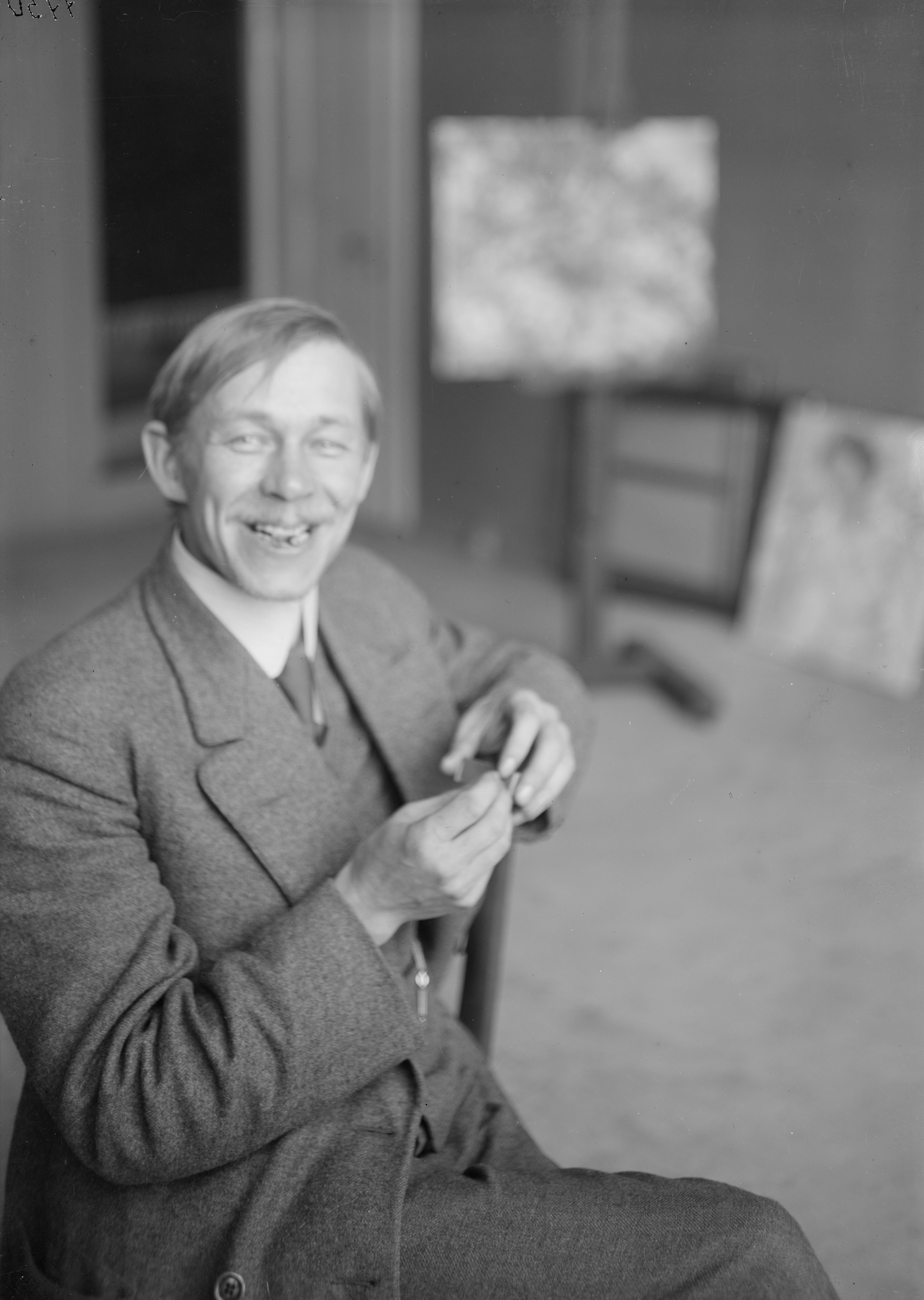 Photograph of the Finnish painter Mikko Oinonen (1883–1956).